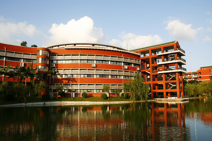 Sun Yat-Sen Memorial Middle School Library & Lake